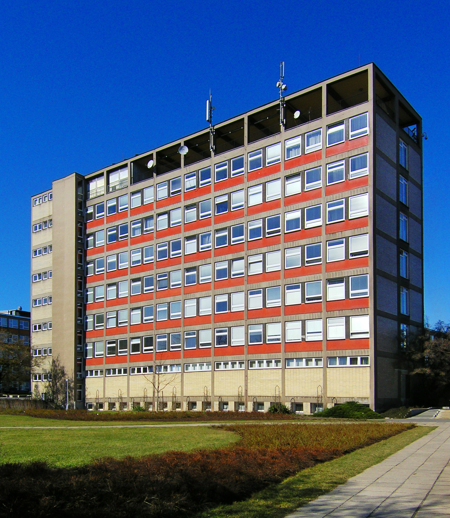 Czech University of Life Sciences Prague in Suchdol, Prague. Rector's office and Institute of Tropics and Subtropics.